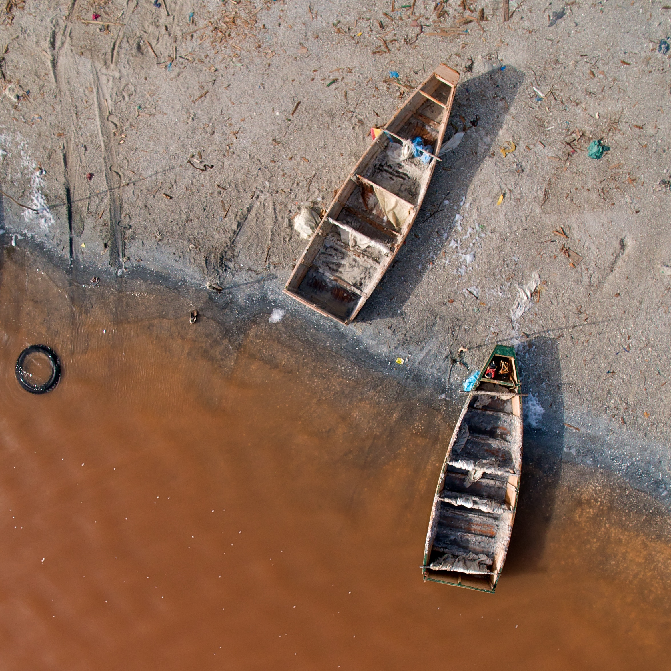 Pink Lake or Lac Rose is... Wiki Link Image was captured by a camera suspended by a kite line. Kite Aerial Photography (KAP) 7' Rokkaku